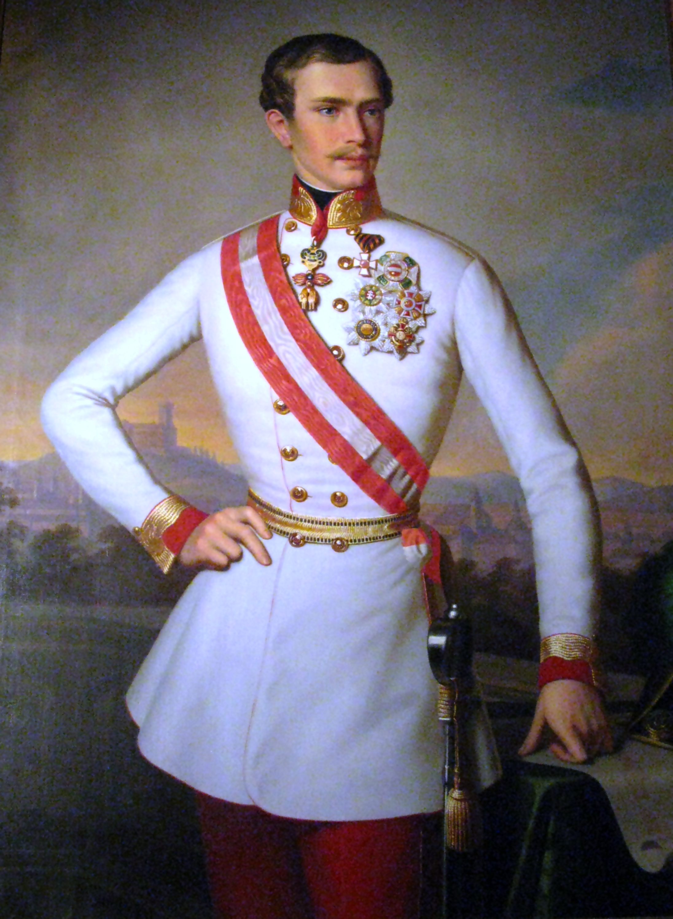 Franz Joseph I of Austria